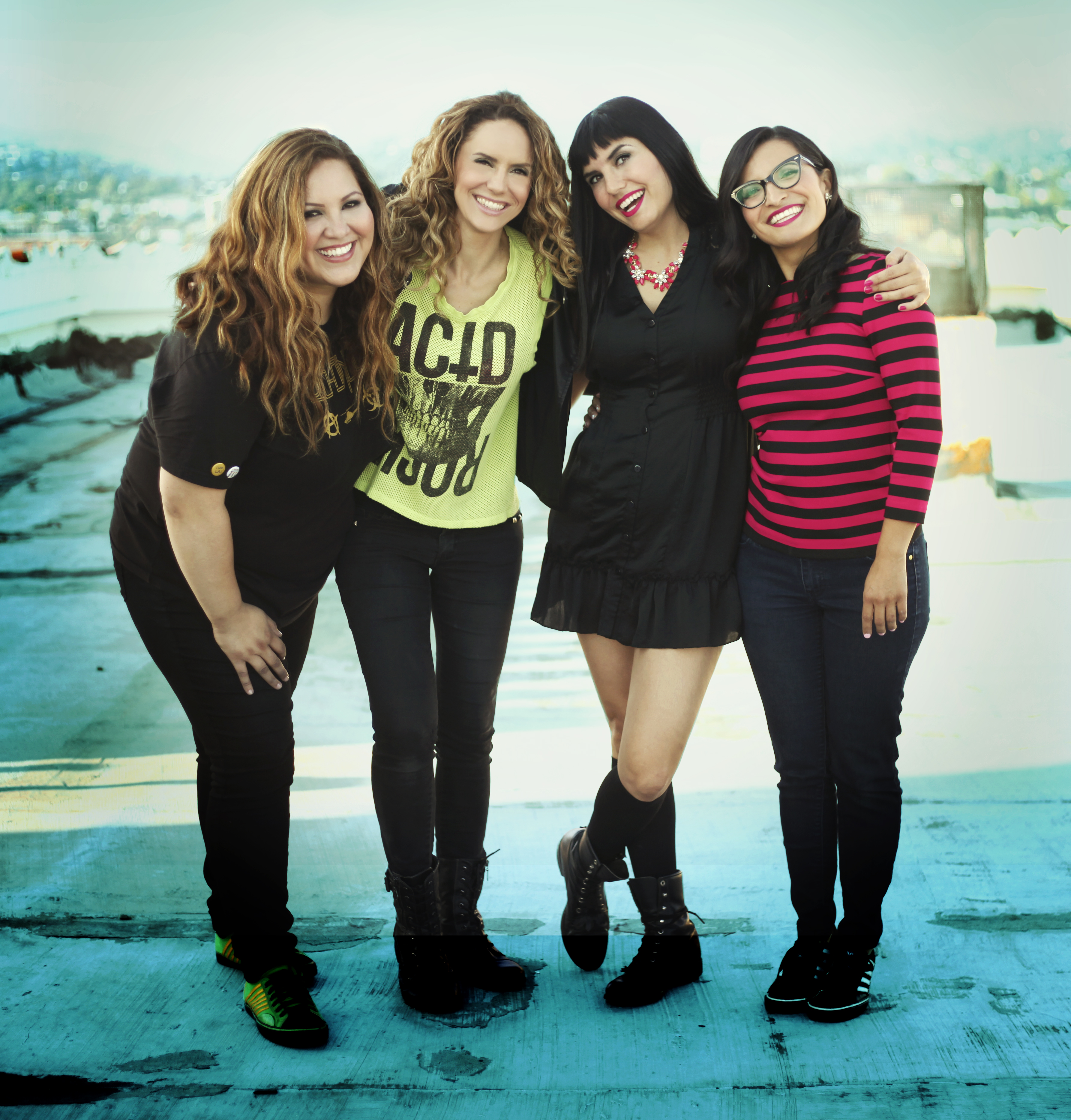 Go Betty Go band press picture